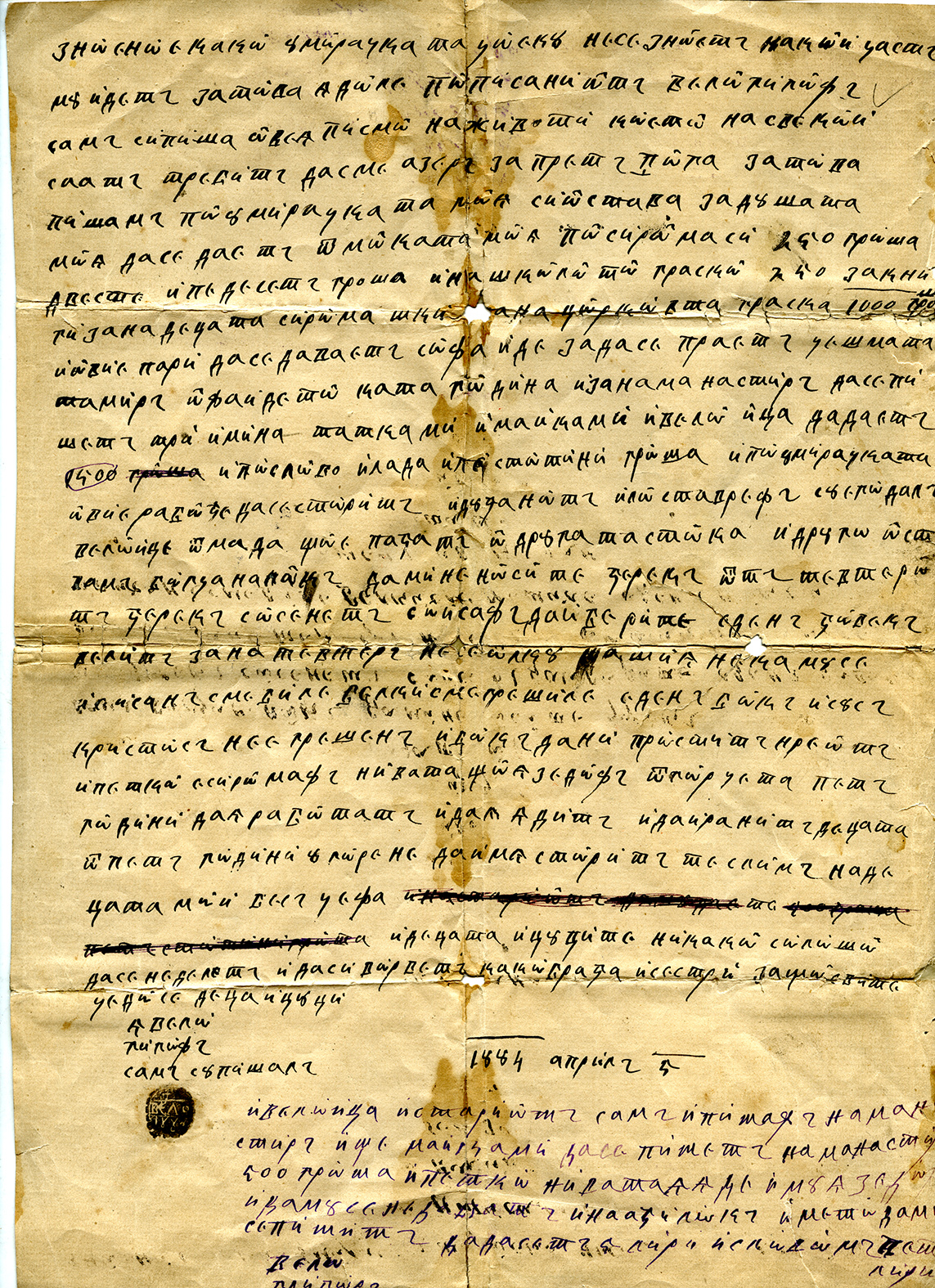 Testament written in Macedonian Language, from 1884. This media file is produced by Wikipedian in Residence in Category:Wikipedian in Residence at DARM in 2016.